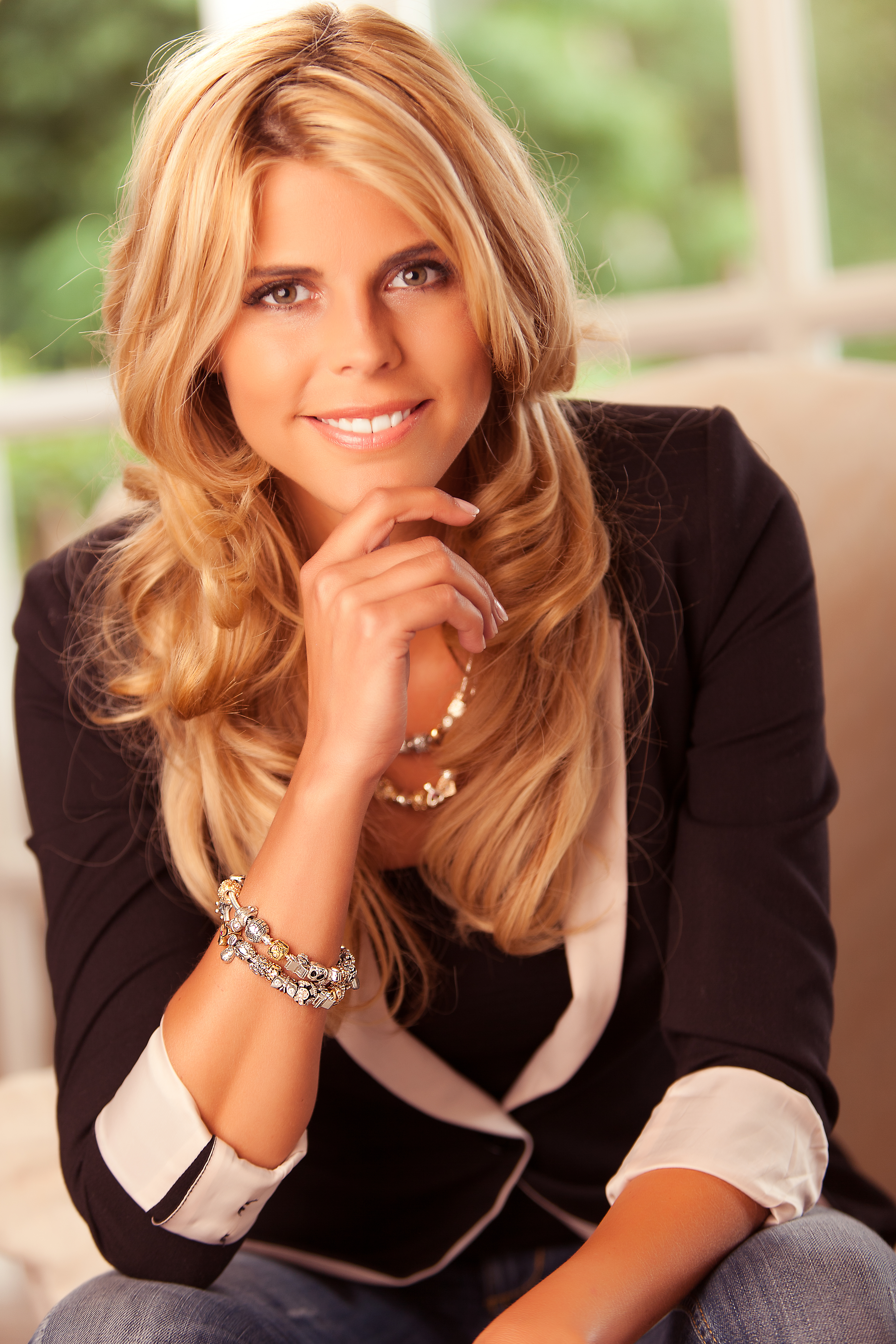 Shot of Dutch model, television host, actress, licence holder for Miss Universe Holland and Germany and the licence holder for Miss World Holland and Mister Holland